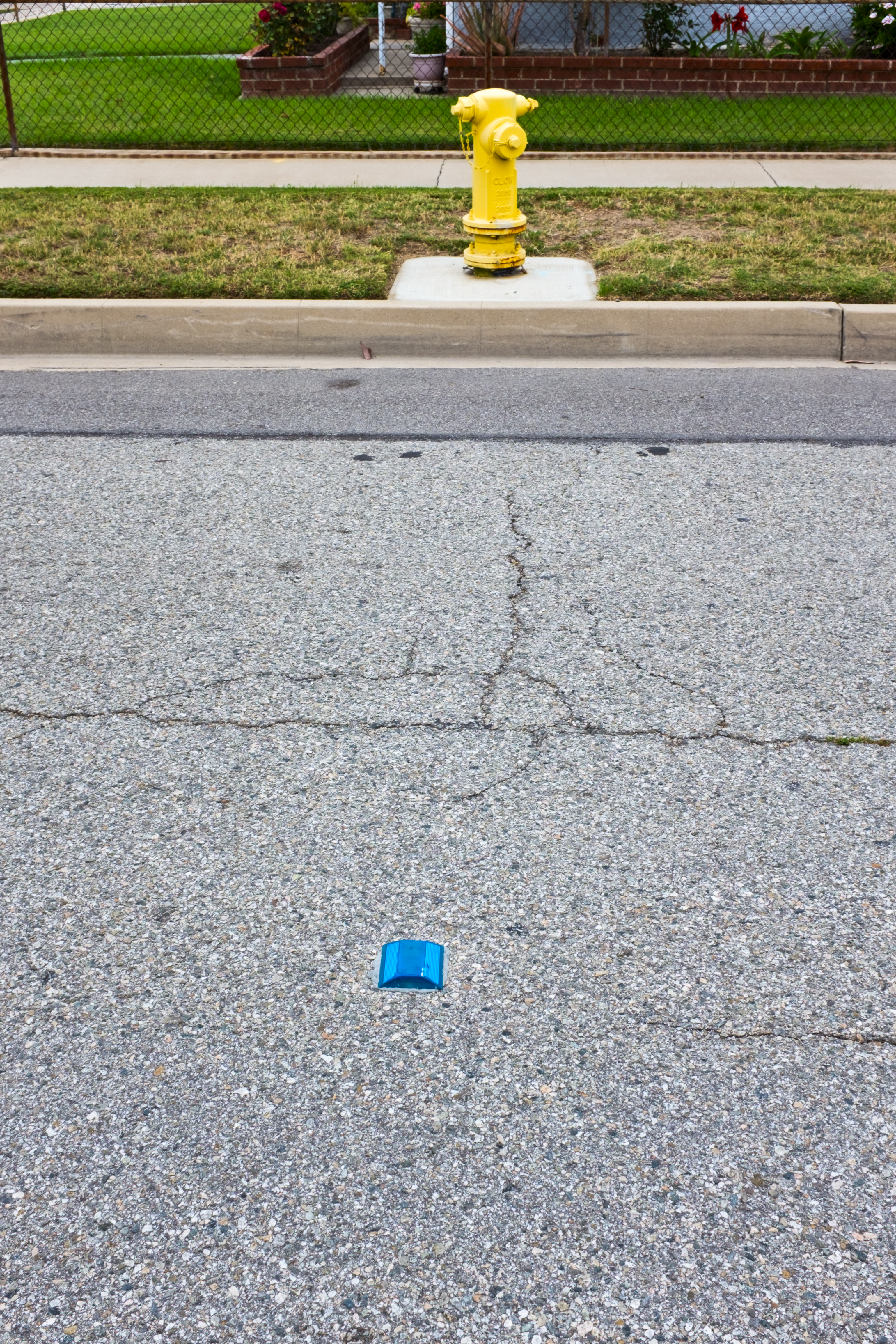 In California, blue reflectors mark the location of fire hydrants